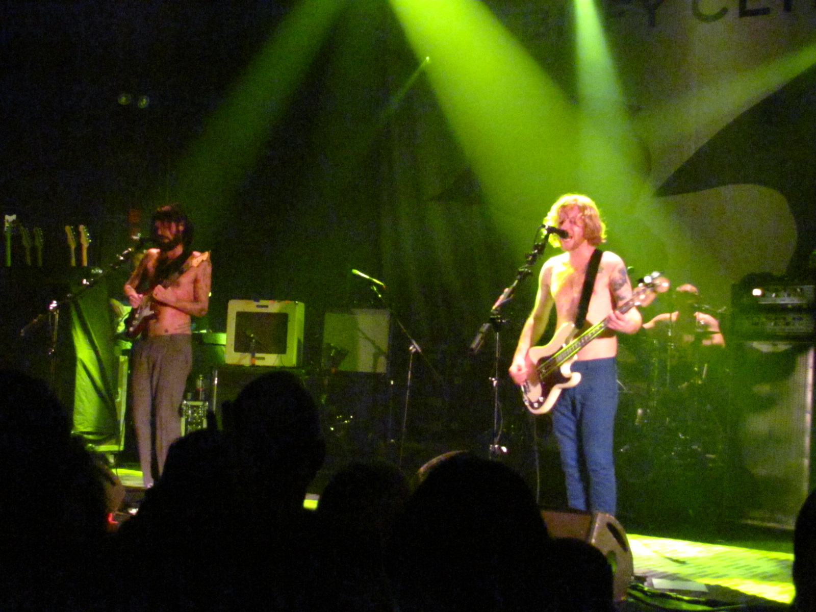 Biffy Clyro